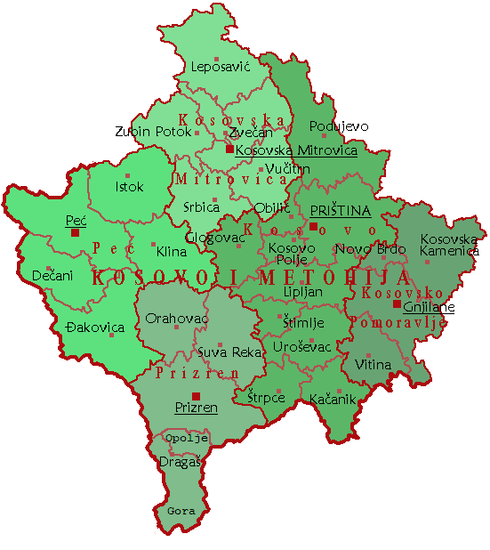 Kosovo and Metohija